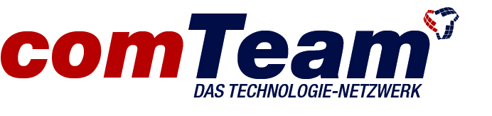 The Logo of comTeam